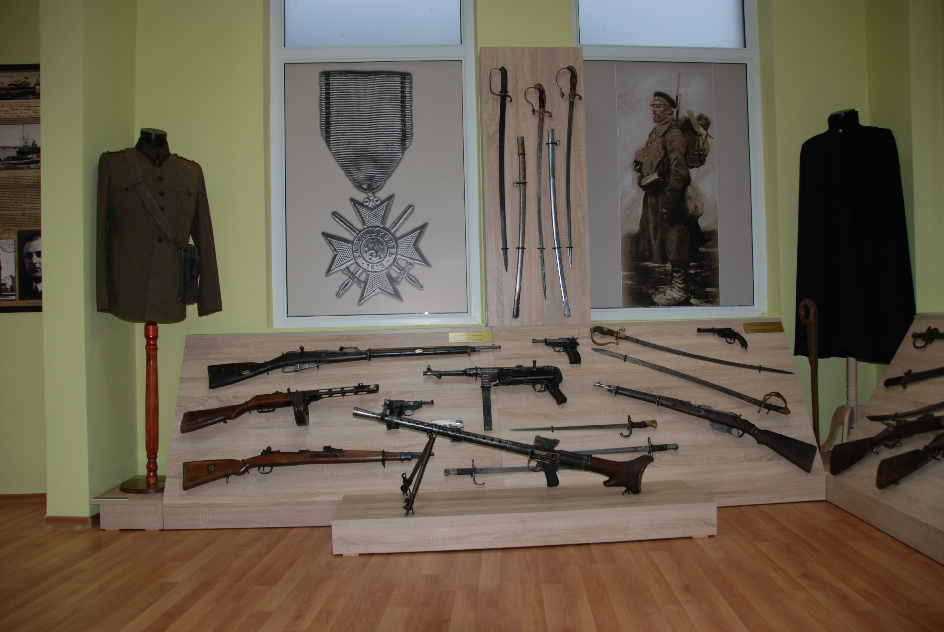 Exposition of the Historical Museum - The wall of Arms